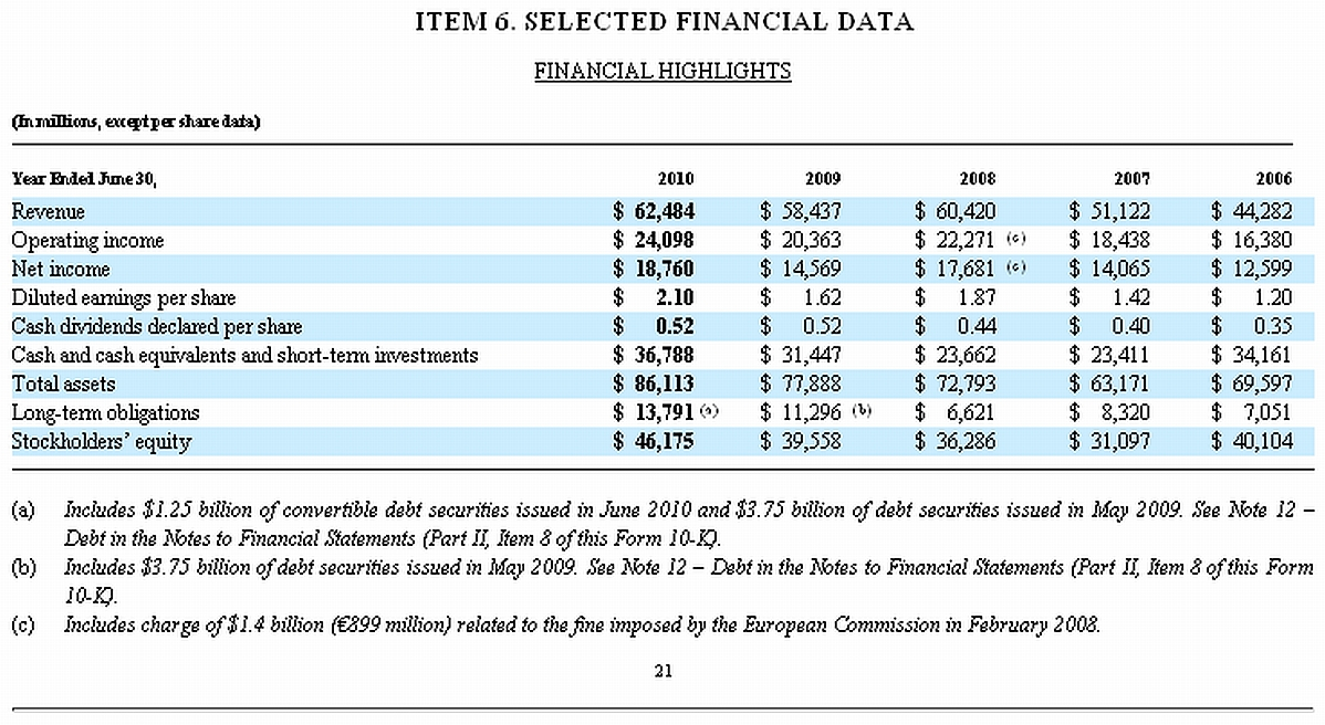 Standard Annual public filing